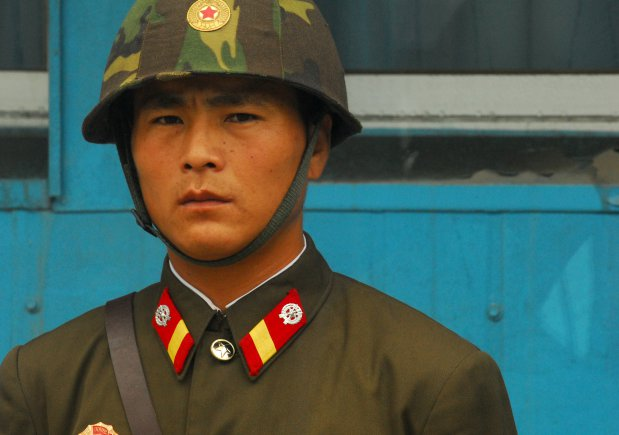 A North Korean Soldier stands guard at the Korean Demilitarized Zone August 11.